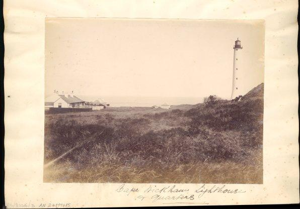 Cape Wickham Lighthouse and quarters, King Island, Bass Strait